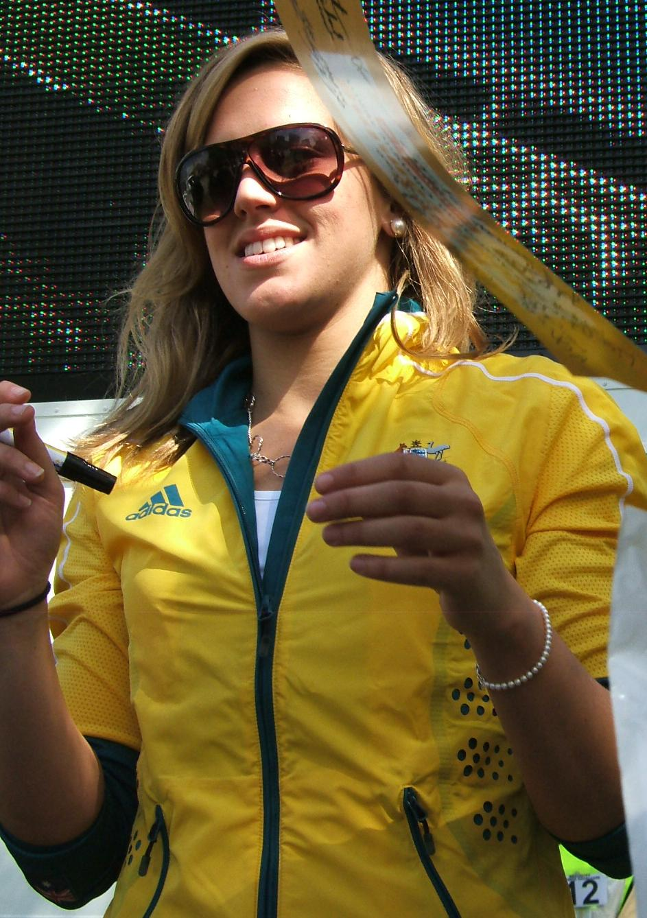 Australian national water polo player Gemma Beadsworth at the 2008 Olympic welcome home parade in Adelaide